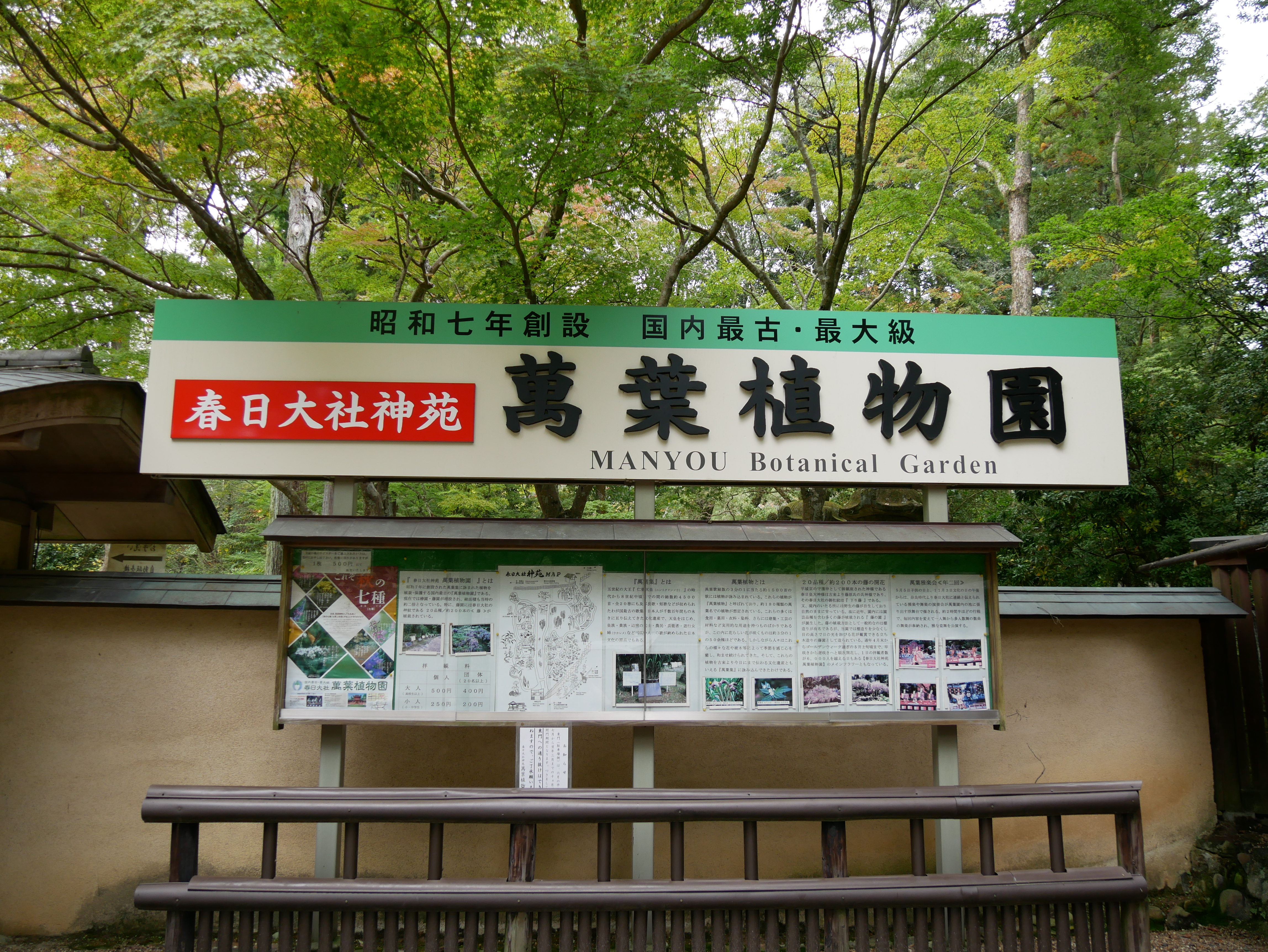 Sign at the entrance of Manyou Botanical Garden, Nara, Japan